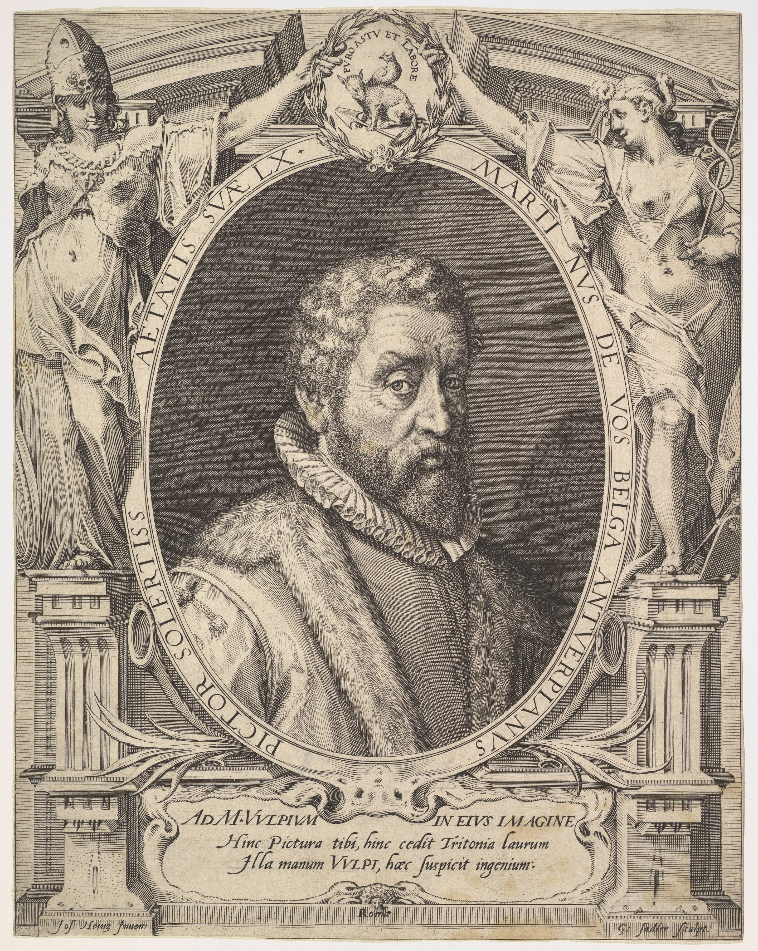 Print; Prints